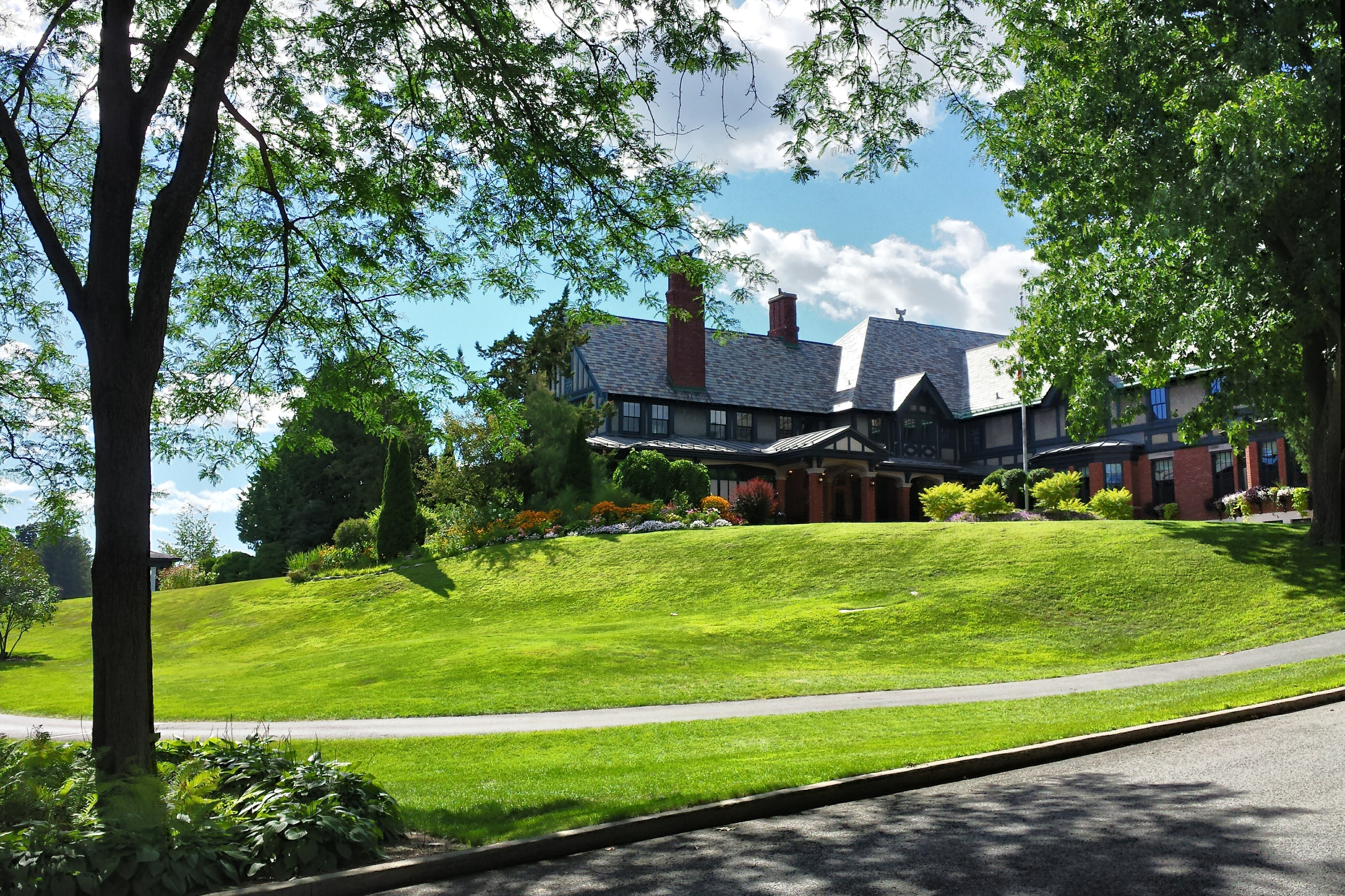 Royal Ottawa Golf Club, Gatineau (Aylmer), Quebec, Canada